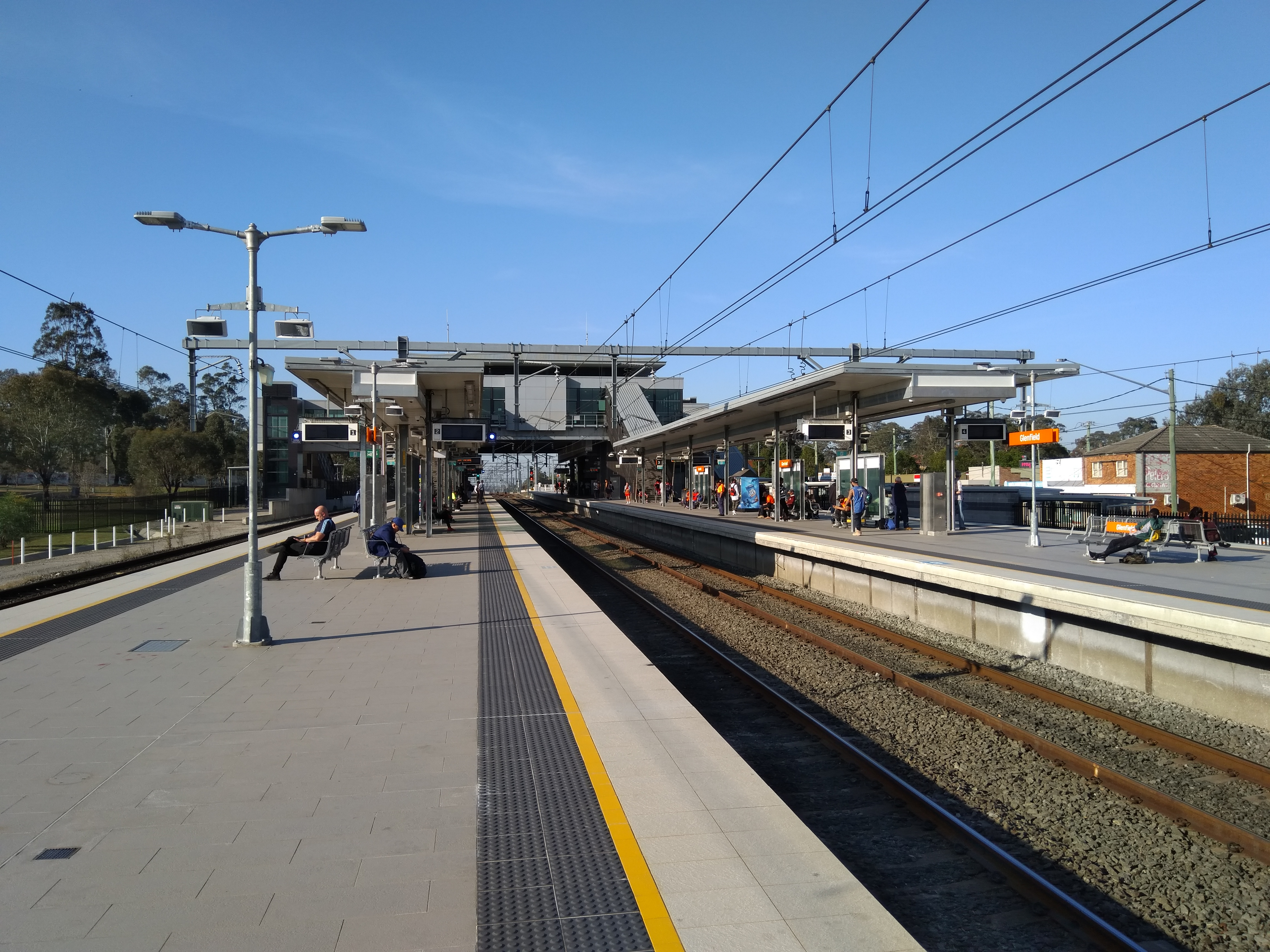 Looking north along the platforms at Glenfield railway station.